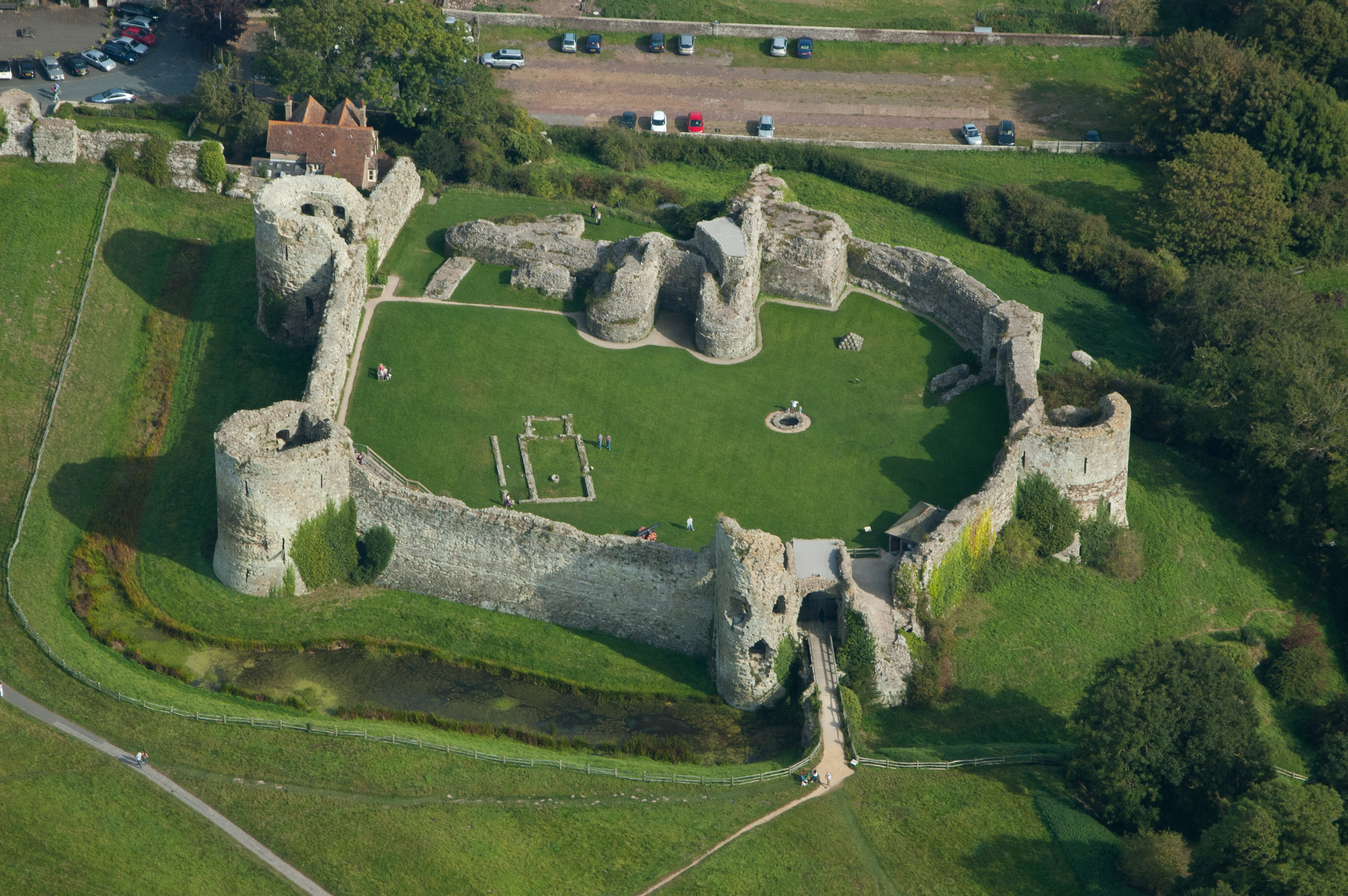 Aerial Photograph of Pevensey Castle, East Sussex